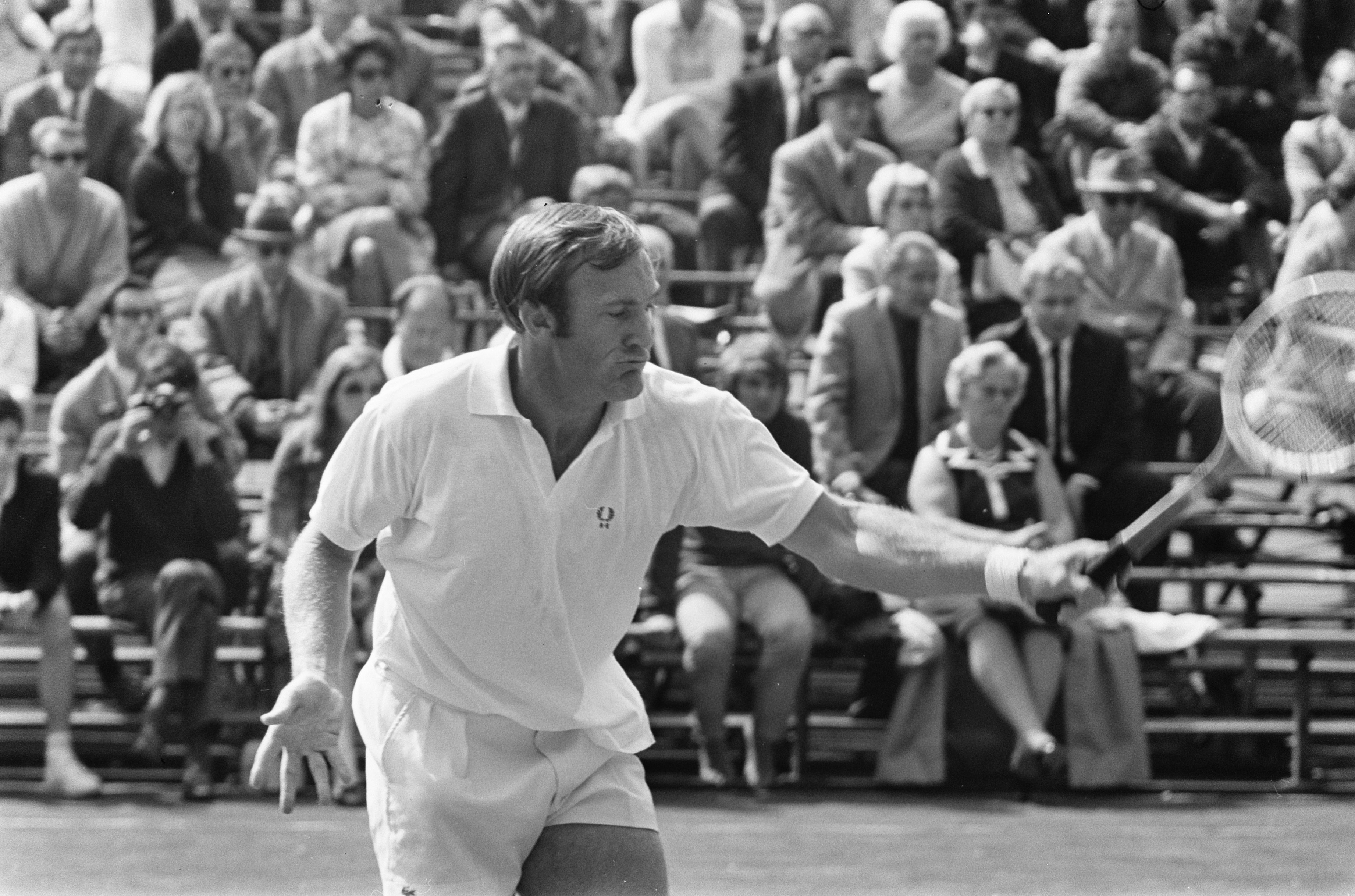 Australian tennis player Tony Roche at a tournament in Amsterdam